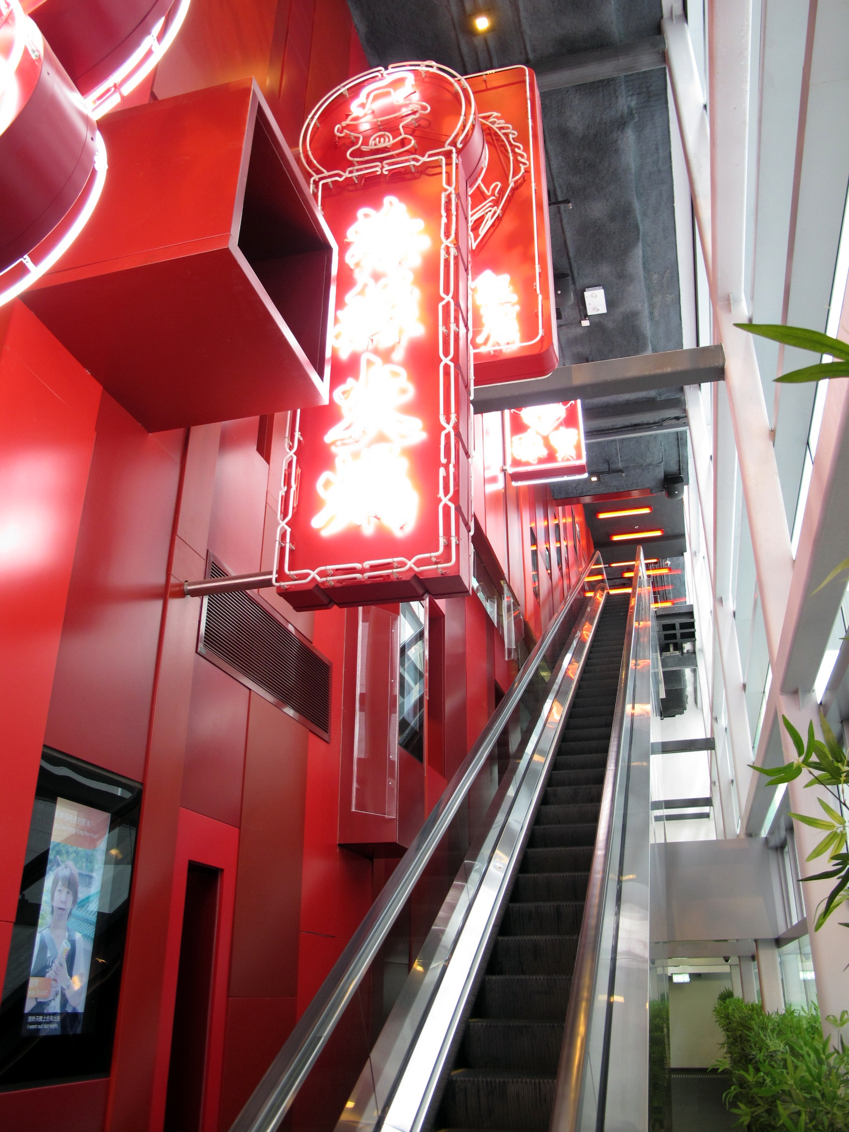 City Gallery Escalator 展城館